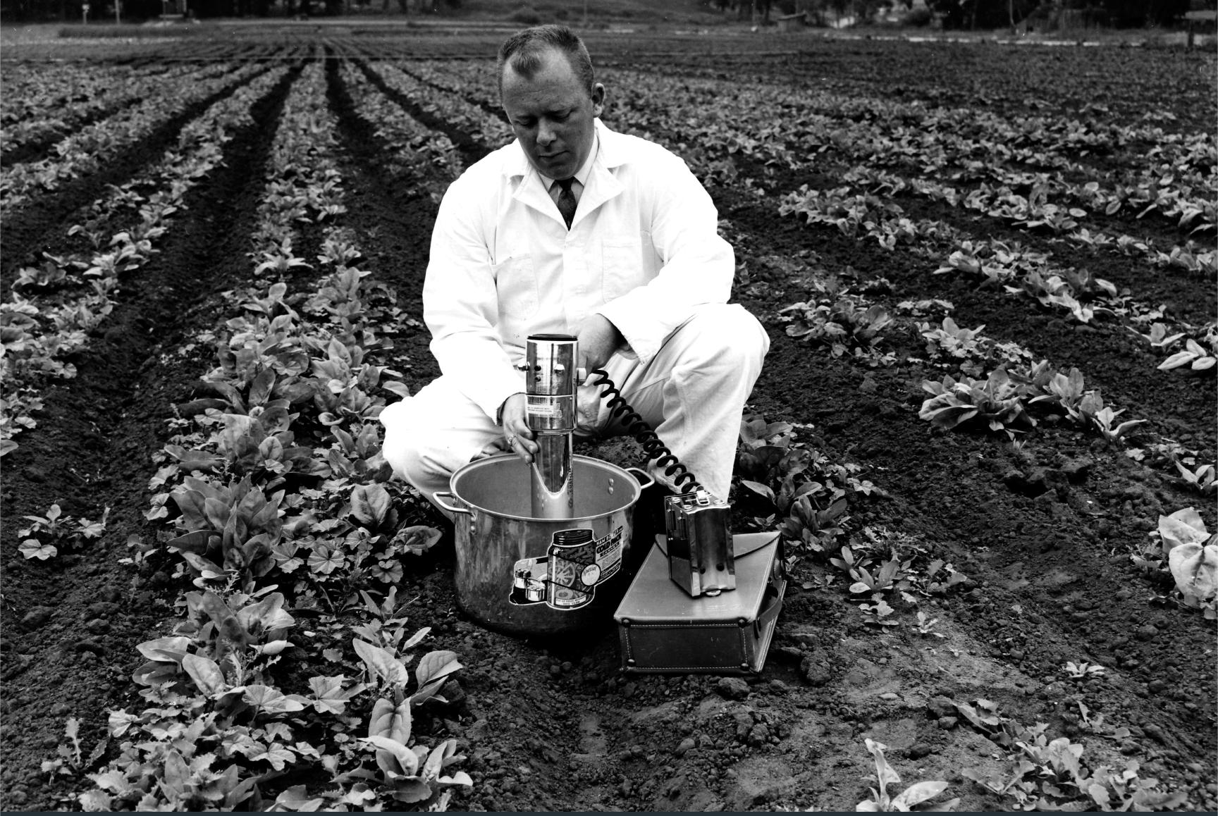 This scientist in FDA’s Food Division tests for the “fingerprints” of organic compounds using a recording gas chromatograph. Such field readings allow FDA scientists to develop and refine testing methods to determine pesticide residue levels in fresh produce. For more information about FDA history visit